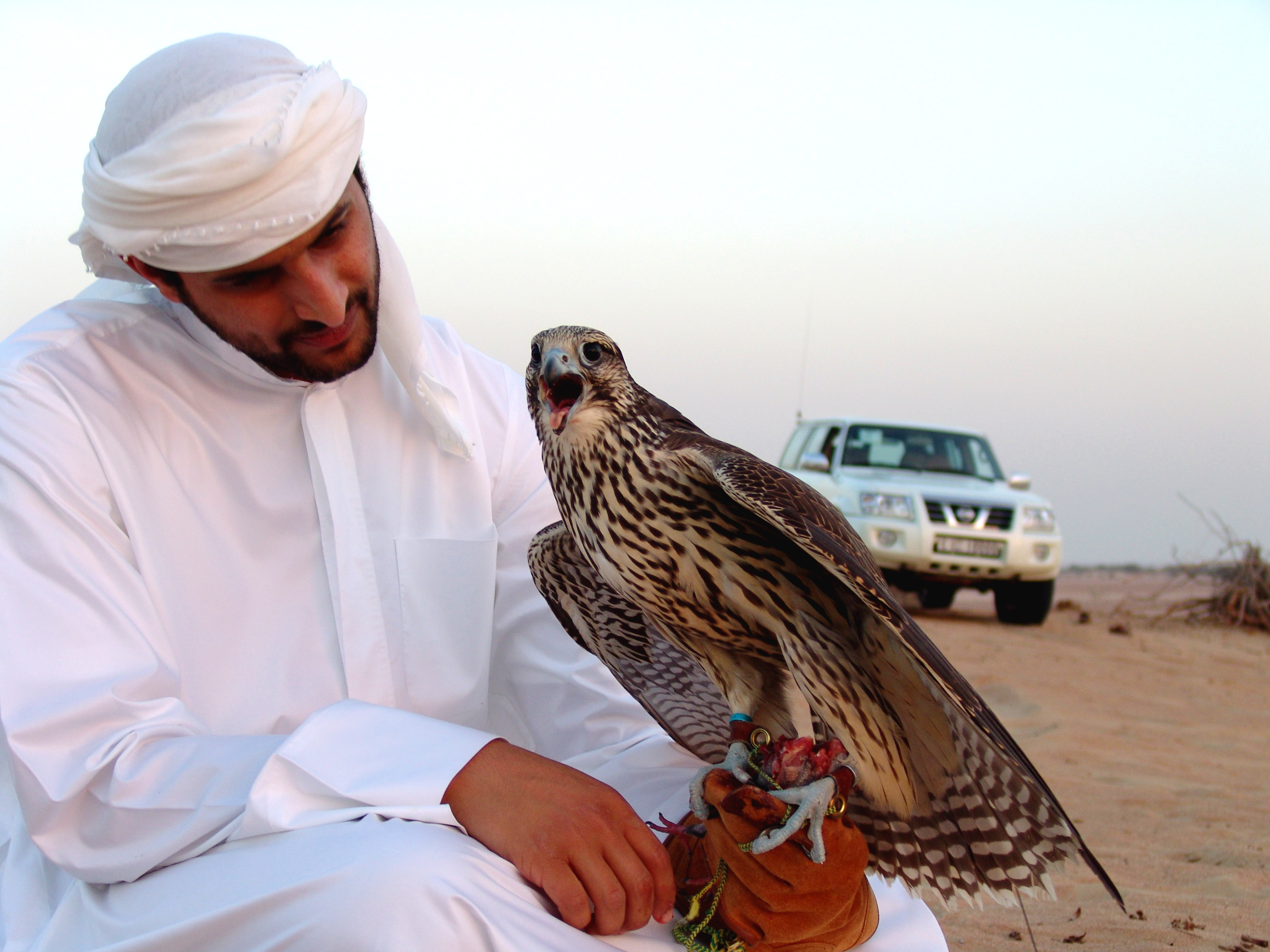 9agar, falcon and Nissan in United Arab EmiratesTheeb